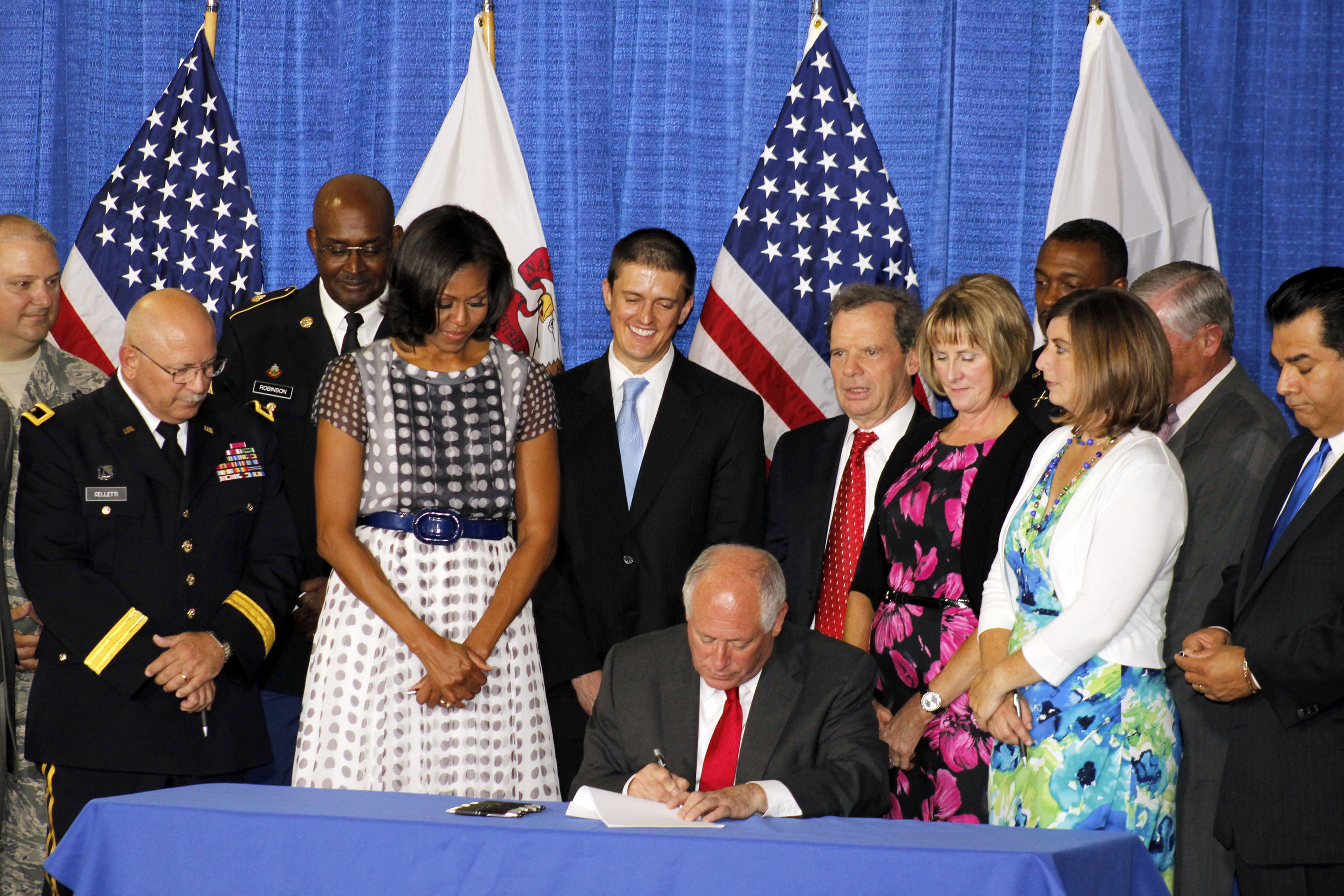 CHICAGO (June 26, 2012) First lady Michelle Obama and military dignitaries look on as Illinois Governor Pat Quinn signs Senate Bill 275 during a ceremony at the Illinois National Guard Armory. The bill allows service members and their spouses to obtain a six-month temporary license while state credentials are transferred to Illinois. (U.S. Navy photo by Mass Communication Specialist 2nd Class Benjamin K. Kittleson/Released) 120620-N-TP877-076 Join the conversation navylive.dodlive.mil